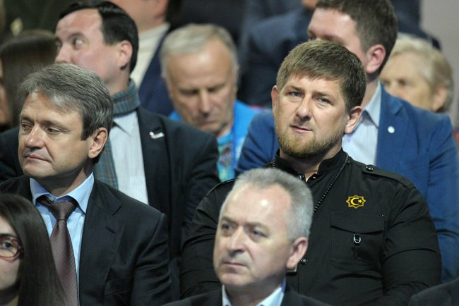 Direct Line with Vladimir Putin (2014-04-17)